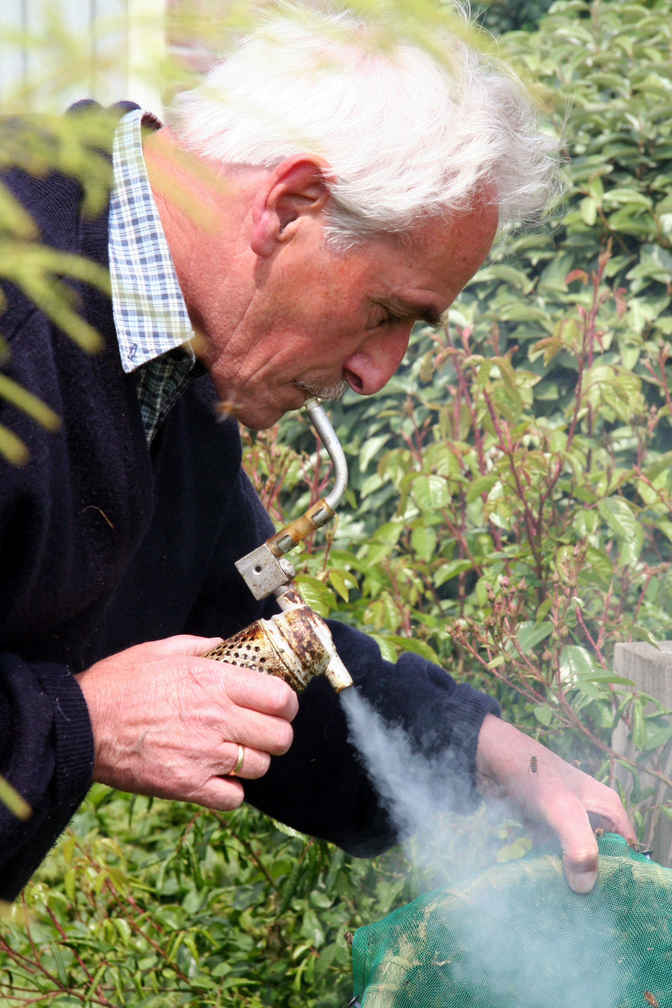 Beekeeper at work